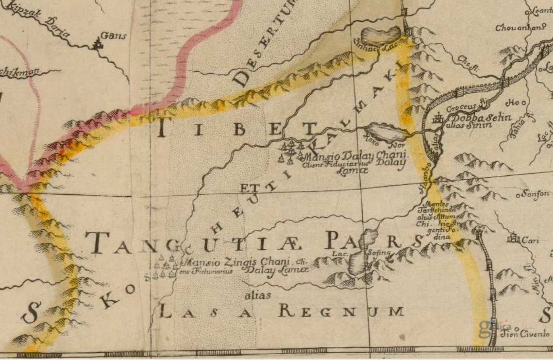 Khoshut Khanate (Oirat kalmyk Mongol) on Tibet - "Kocheuti Kalmaki - Tibet et Tangutiæ Pars alias Lasa Regnum", under the Lake Qinghai (Khökh Nuur/Koko nor in mongolian), is wrote : "Mansio Dalay Chani. Cliens Fiduciarius Dalaÿ Lamæ". (residence of Dakaï Khan. Fiduciary (or thrustee) customer (servitor) Dalai Lama.)